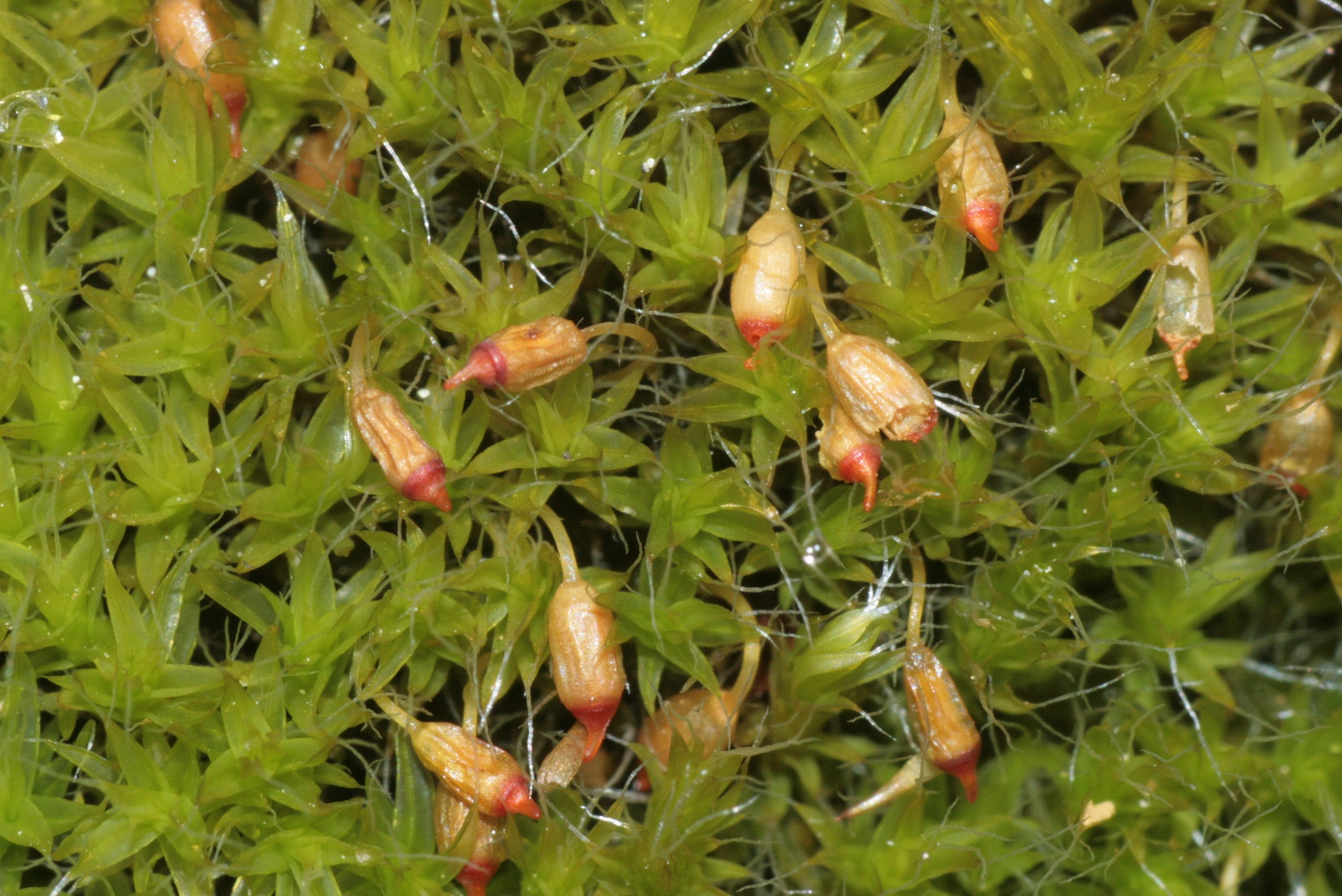 Grimmia pulvinata